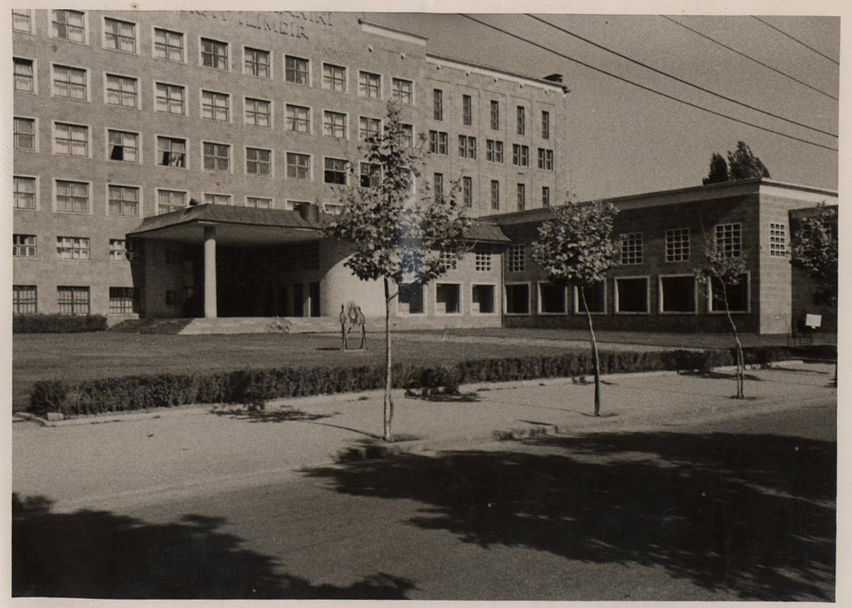 Ankara Üniversitesi Dil ve Tarih-Coğrafya Fakültesi’nin binası 1937’de Bruno Taut tarafından tasarlandı. Aynı dönemde Ankara İmar Planı’nı hazırlamakta olan Hermann Jansen projeye karşı çıktı, ancak İmar İdare Heyeti itirazları yerinde bulmadı ve proje uygulandı. Ana caddeye paralel dikdörtgen prizmatik kütlesi ile bunun iki ucuna eklenmiş küçük bloklardan meydana gelen yapının ön cephesinde taş ve tuğla birlikte kullanıldı; yan ve arka cepheler sıvayla kaplandı. Erken Cumhuriyet dönemi anıtsal mimarlığına uygun olarak modern-klasisist tarzda olan yapının ön cephe alınlığındaki Atatürk Maskı, heykeltıraş Joseph Throak’ın çalışmasıdır. Fakülte bahçesinde yer alan Mimar Sinan Anıtı ise, Hüseyin Anka Özkan tarafından yapılmıştır. SALT Araştırma, Ali Saim Ülgen Arşivi